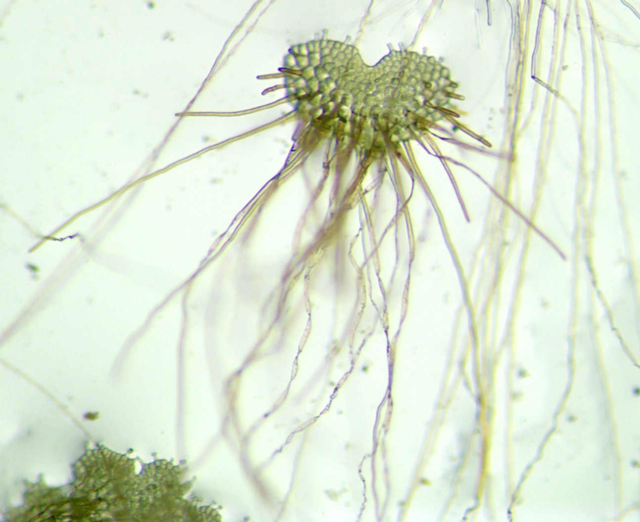 Living specimen of a young fern gametophyte